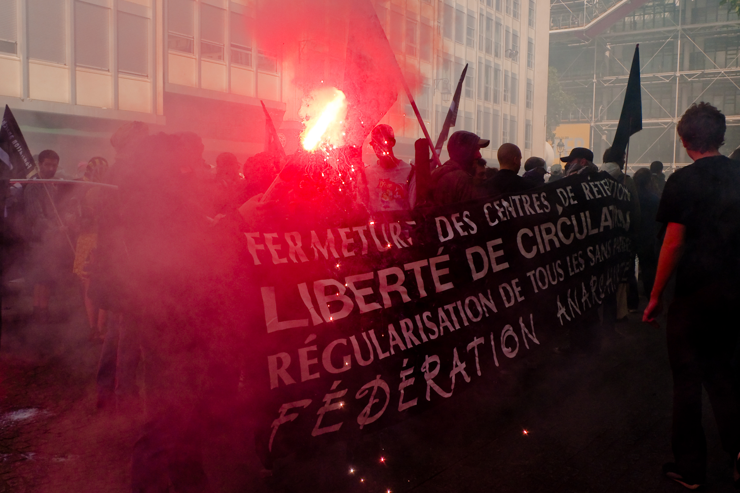 Manifestation contre la répression organisée le 21 juin 2009 à Paris.